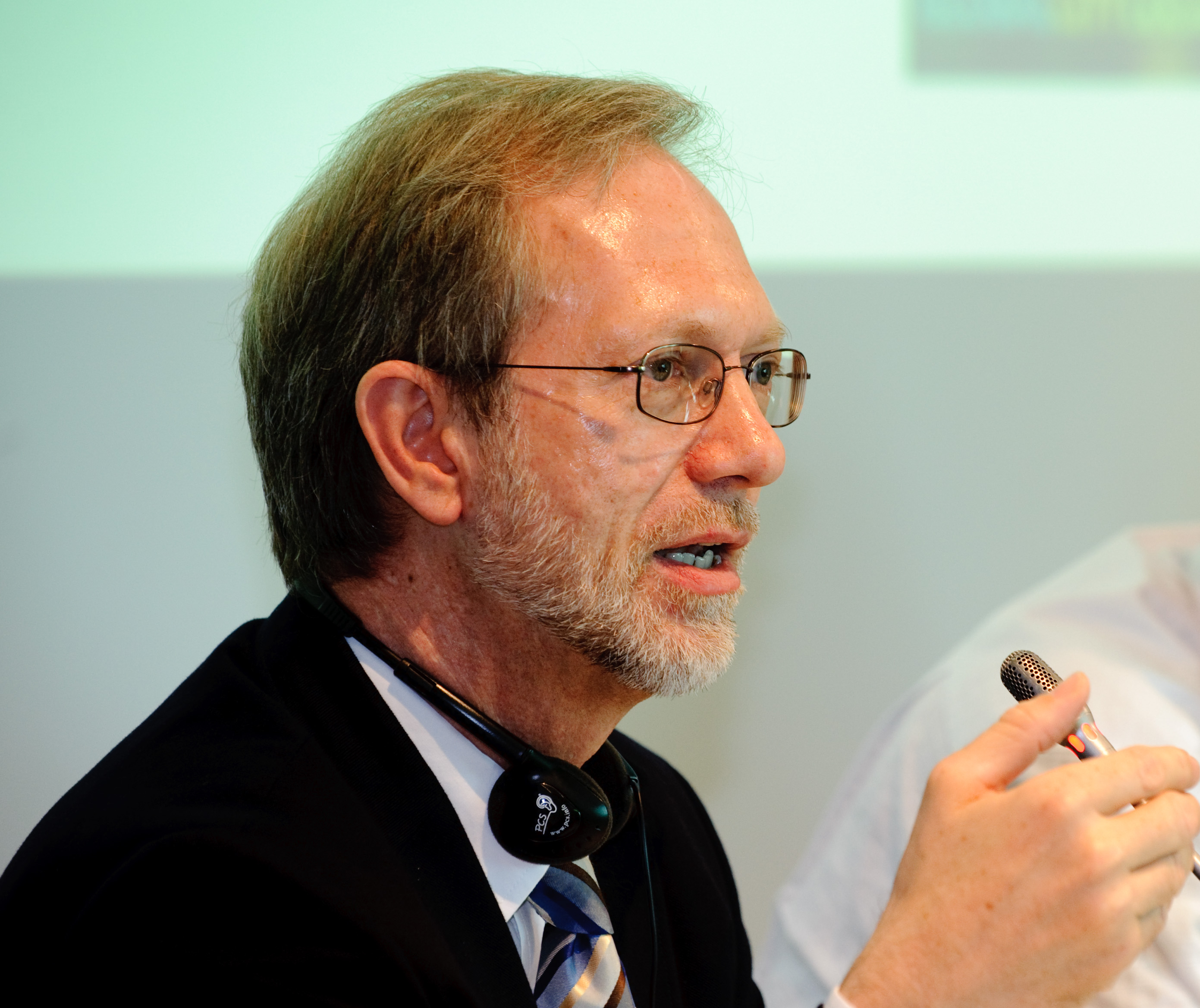 Foto: Stephan Röhl